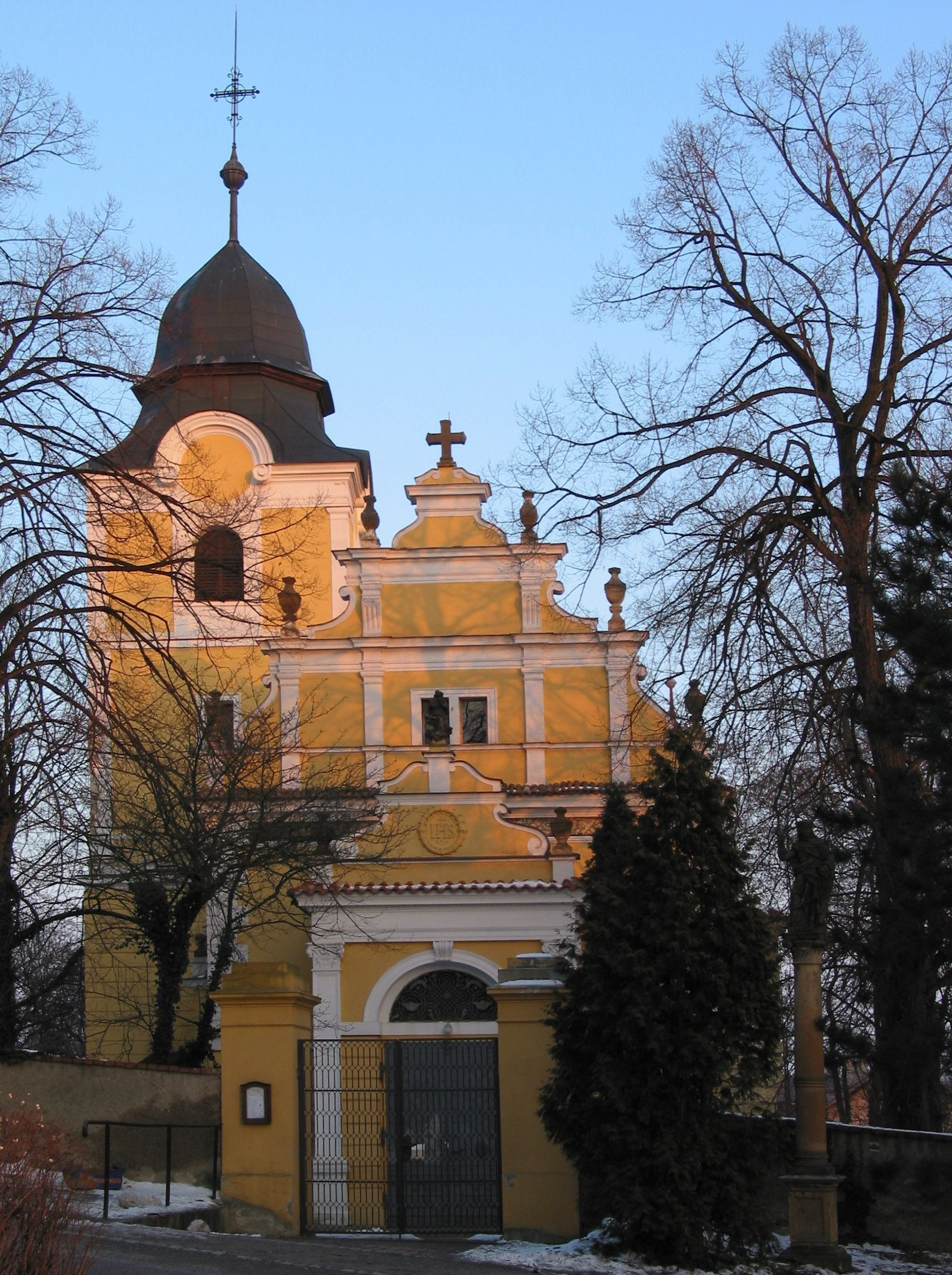 Church of the Assumption in Klecany, Prague-East District, Czech Republic.